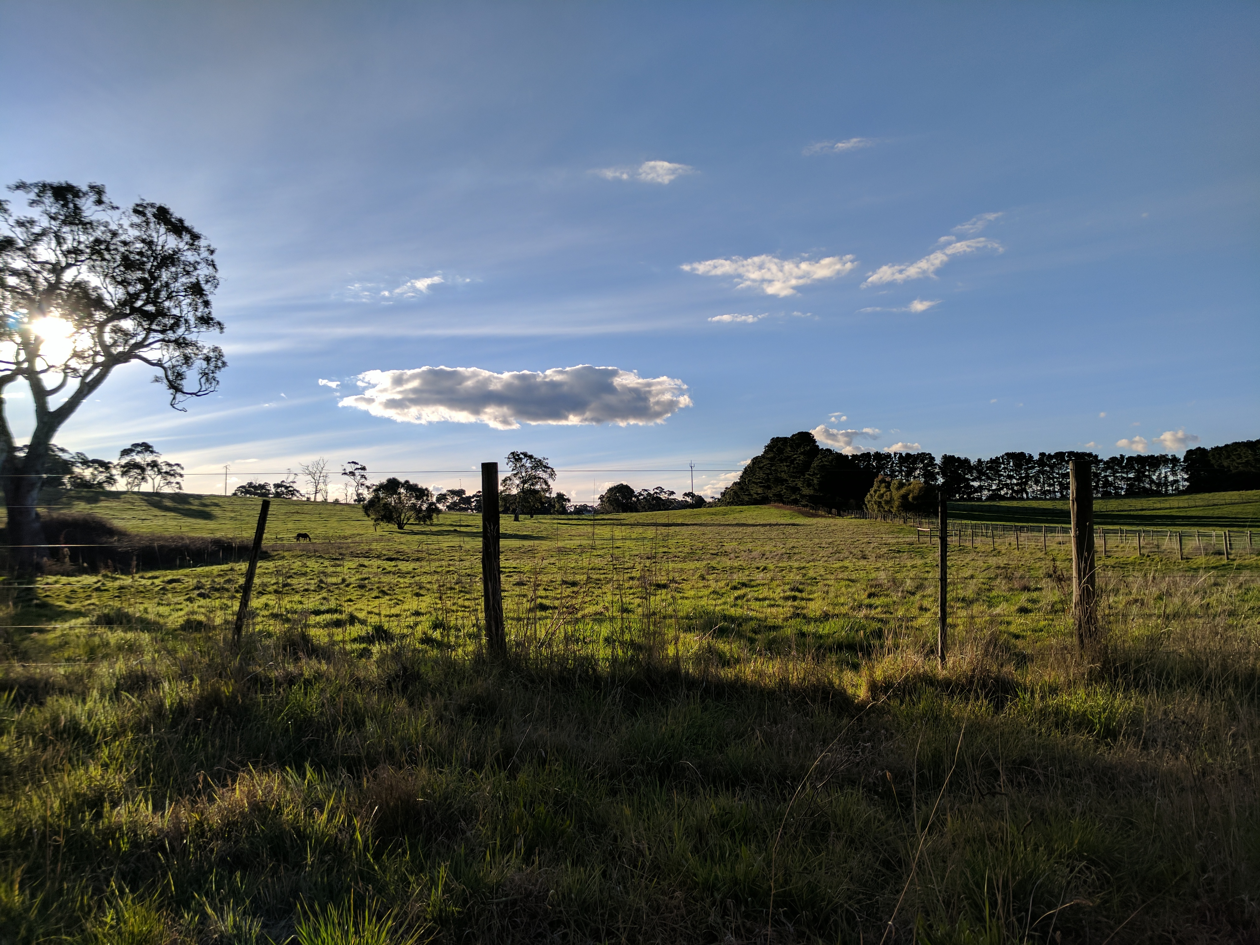 Hills between Nairne north edge and Hay Valley, South Australia